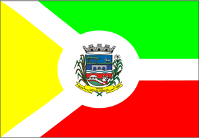 Flags of the city of Cristal, Rio Grande do Sul, Brazil.